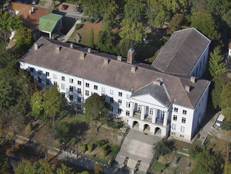 Moholy-Nagy Art University, Budapest, Hungary, aerial photography